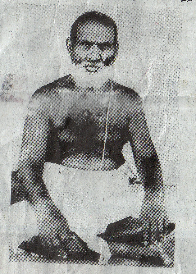 photo taken from Veerakesari News paper